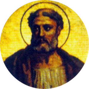 Portait of Pope Siricius in the Basilica of Saint Paul Outside the Walls, Rome